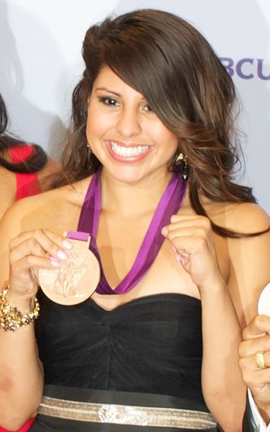 Four of the 2012 Olympic medalists at the ALMA Awards. From left: Jessica Steffens, Brenda Villa, Marlen Esparza and Leonel Manzano